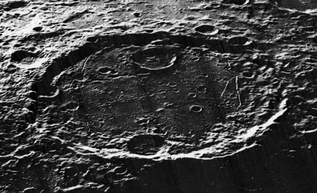 Oblique view of Oppenheimer (crater), on the far side of the moon.